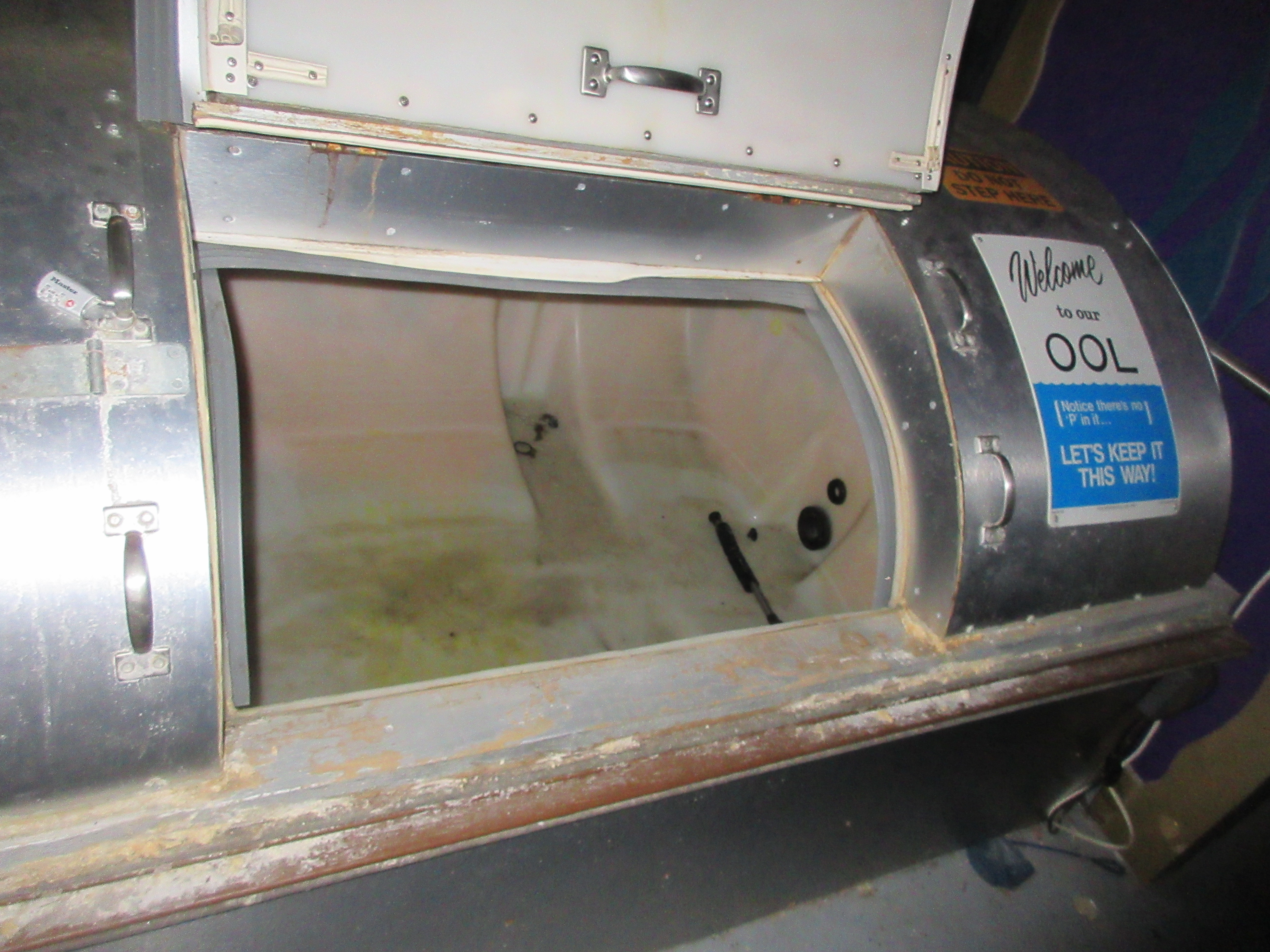 Krewe of Chewbacchus Den, Castillo Blanco, St. Claude Avenue, New Orleans